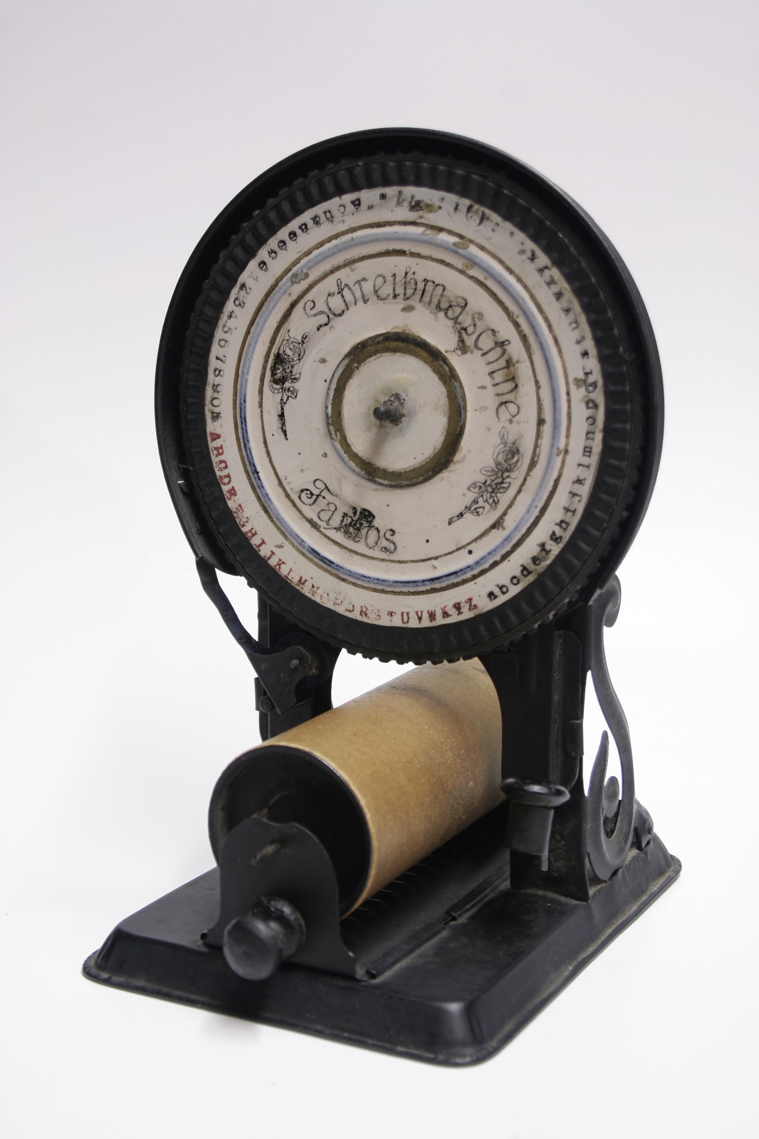 typewriter Famos